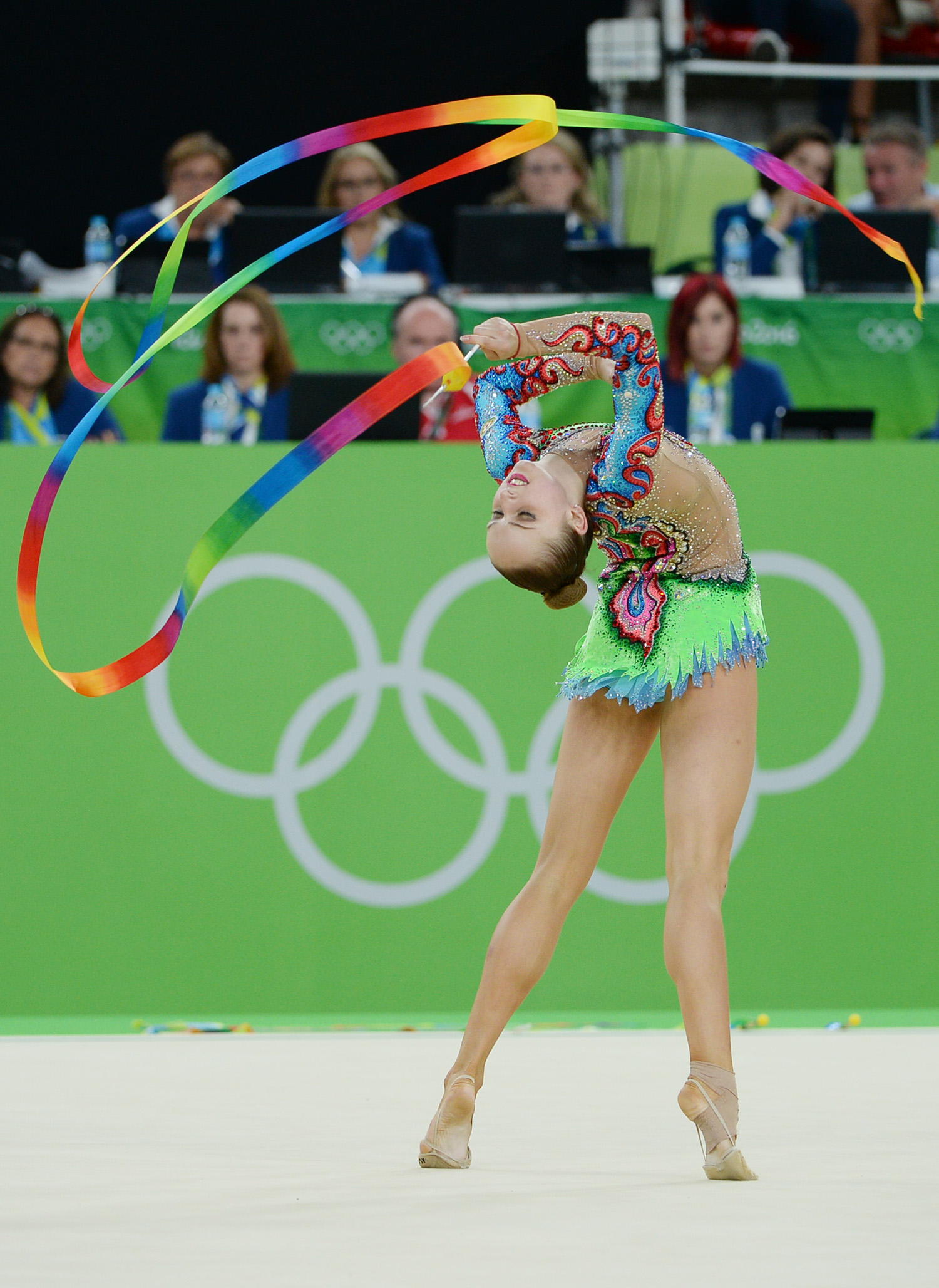 Rhythmic gymnastics at the 2016 Summer Olympics, Marina Durunda